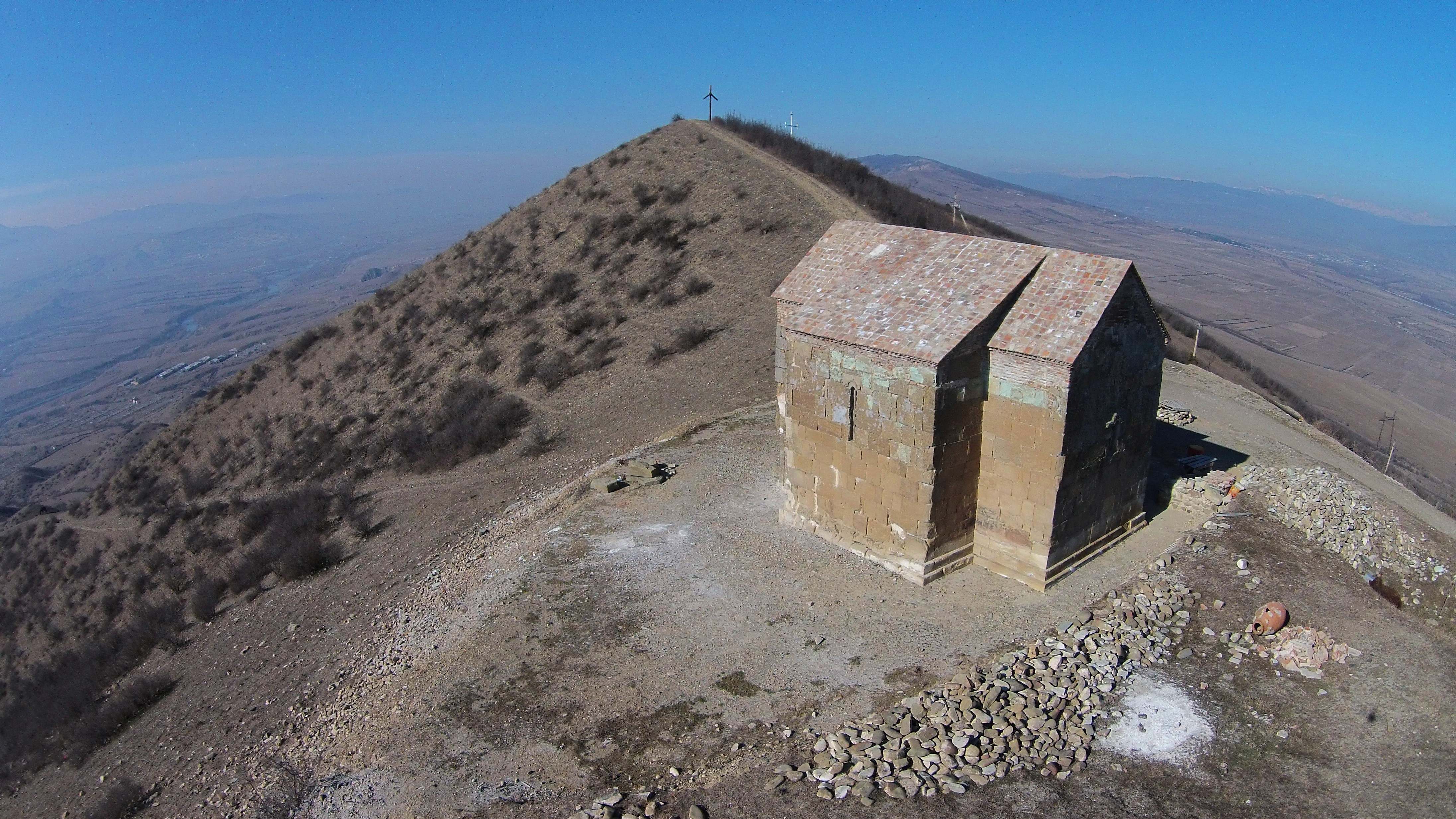 DCIM\100MEDIA